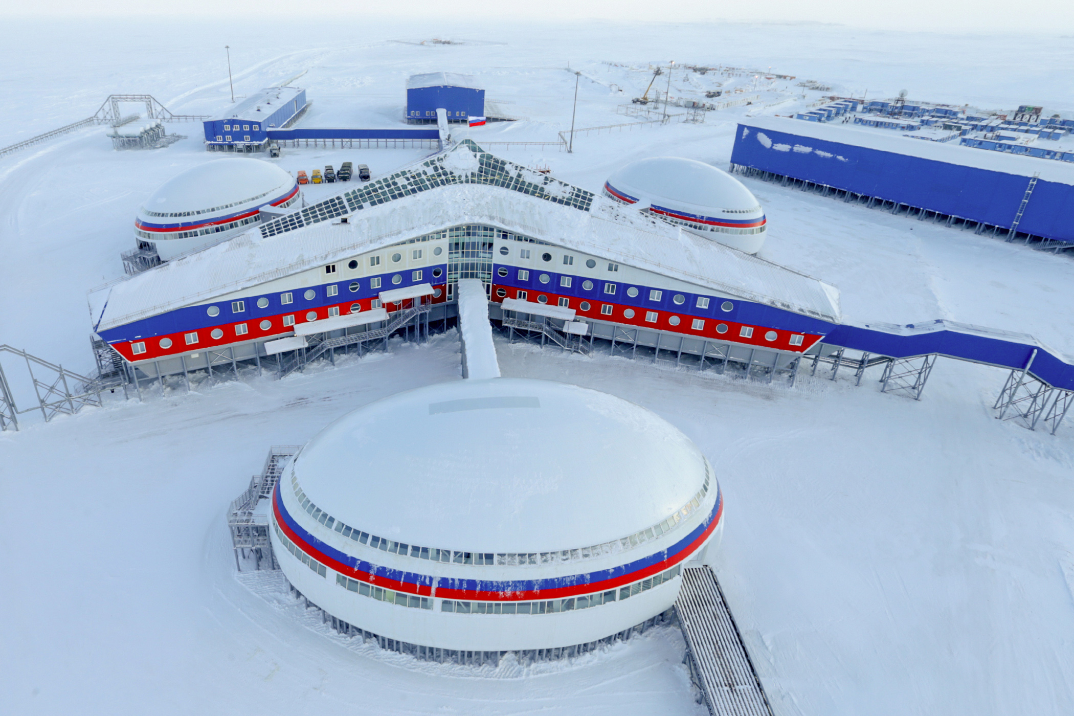 Arkticheskiy trilistnik (2017)